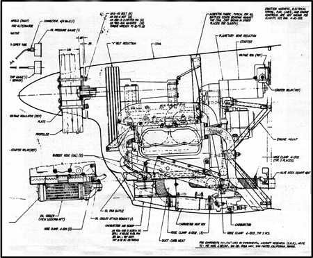 Photo of Pazmany original blueprint with close up of light aircraft engine, complete with propeller and mounts